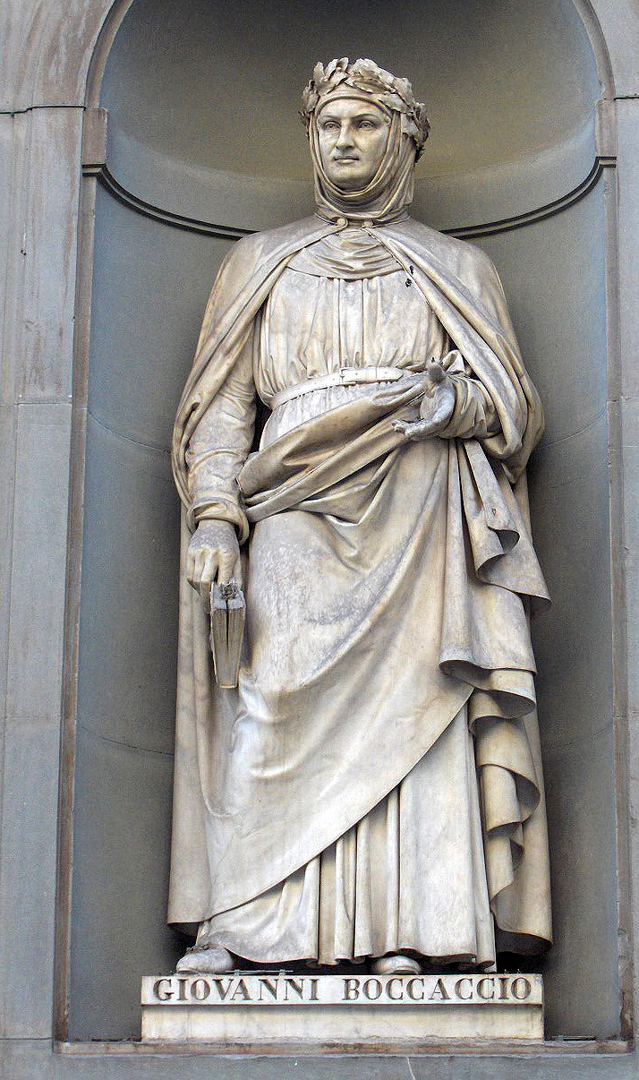 statue of Giovanni Boccaccio Uffizi Gallery Locationborough 1 of Florence, ItalyCoordinates43° 46′ 06.24″ N, 11° 15′ 21.24″ E Established1765Web page control : Q16335227 VIAF: 316731929 institution QS:P195,Q16335227